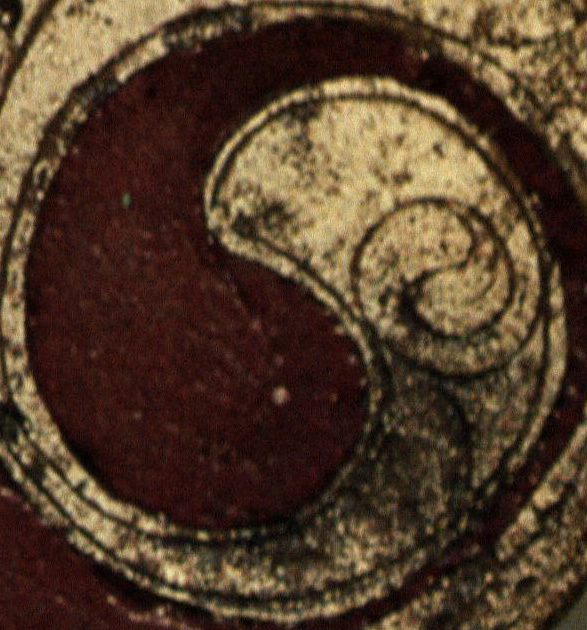 Celtic yin yang motif. Detail of an enamelled bronze plaque from horse-gear, dated to mid-1st century AD; find spot: Santon, Norfolk; on display at University Museum of Archaeology and Ethnology in Cambridge